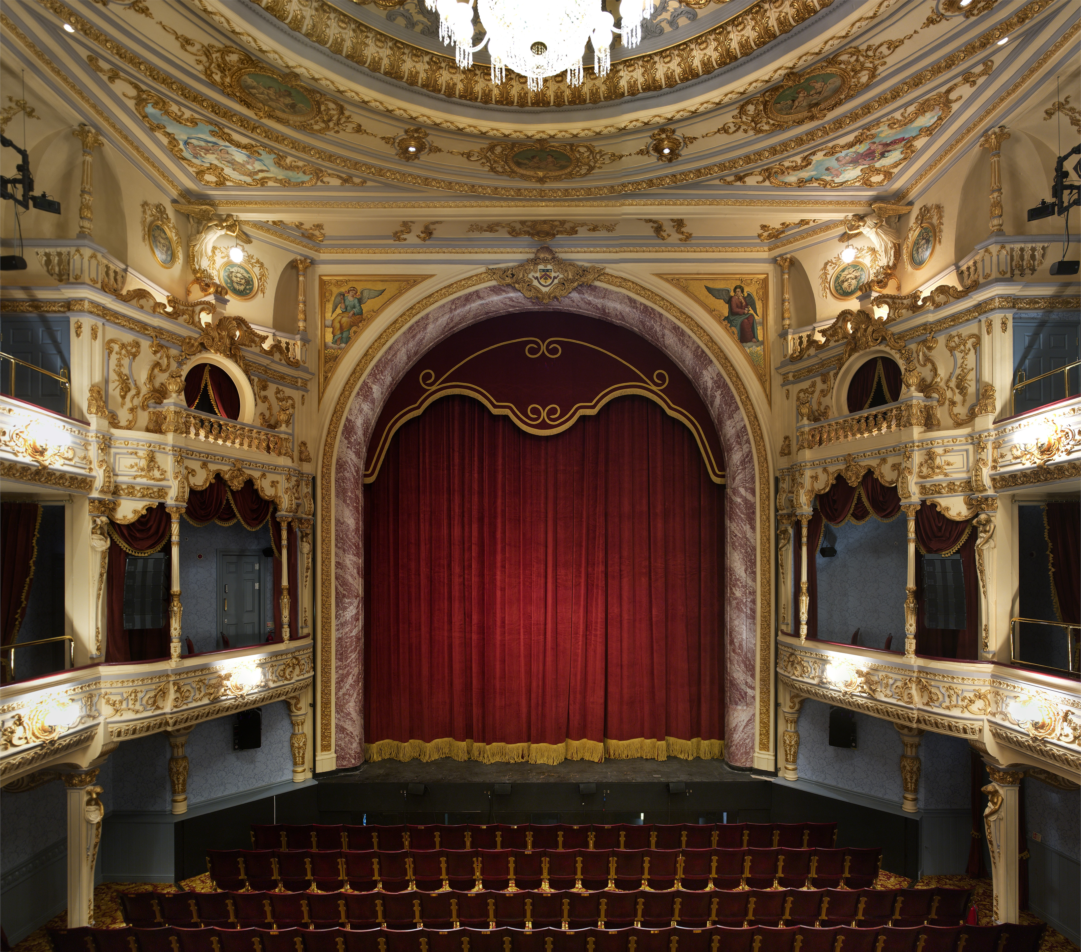 View of the stage from the auditorium following the 2011 refurbishment.